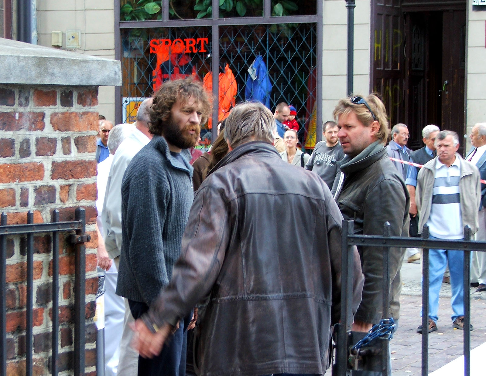 Toruń, Poland - on the set of Polish movie 'Kto nigdy nie żył' (Who Never Lived)